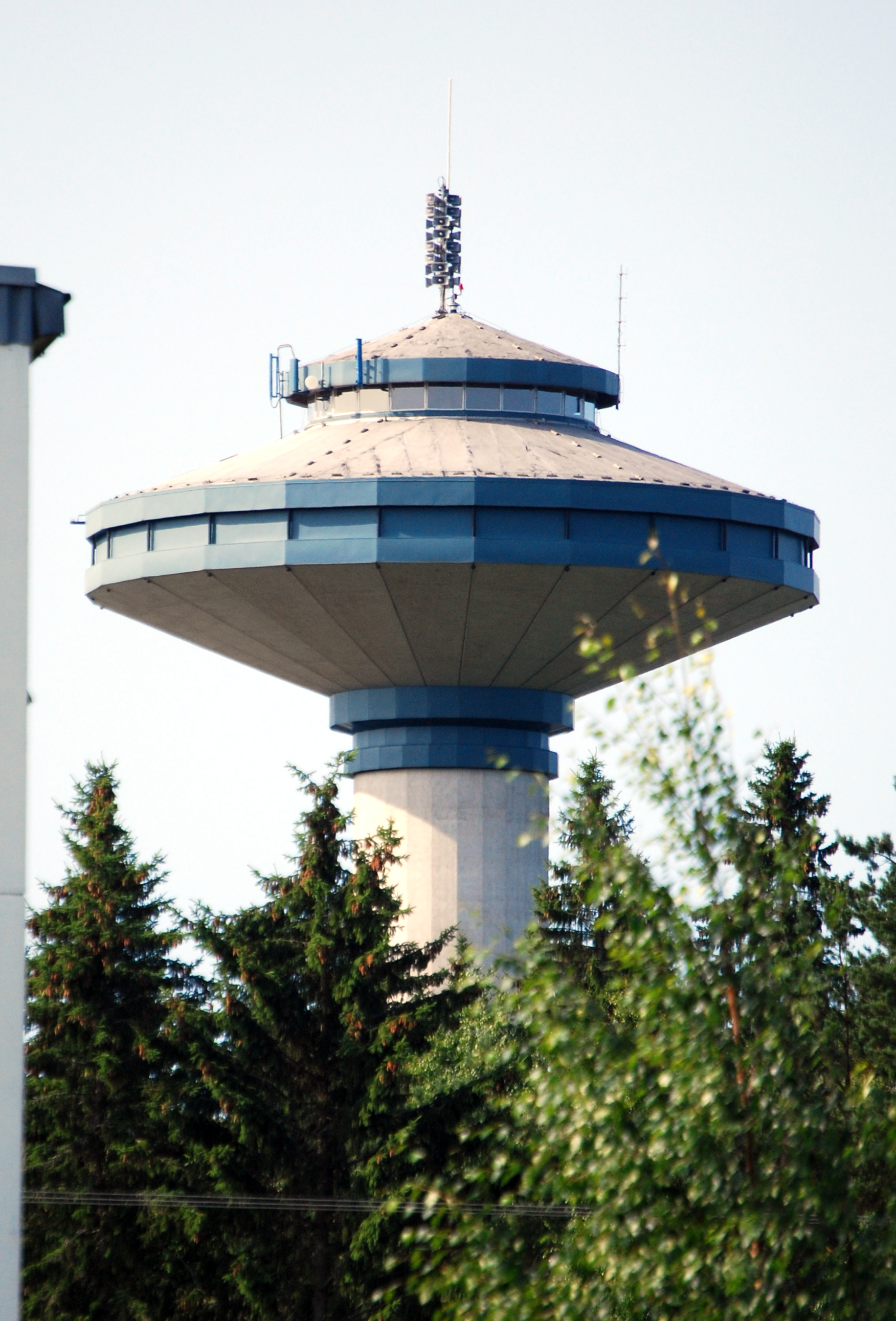 Eurajoki water tower